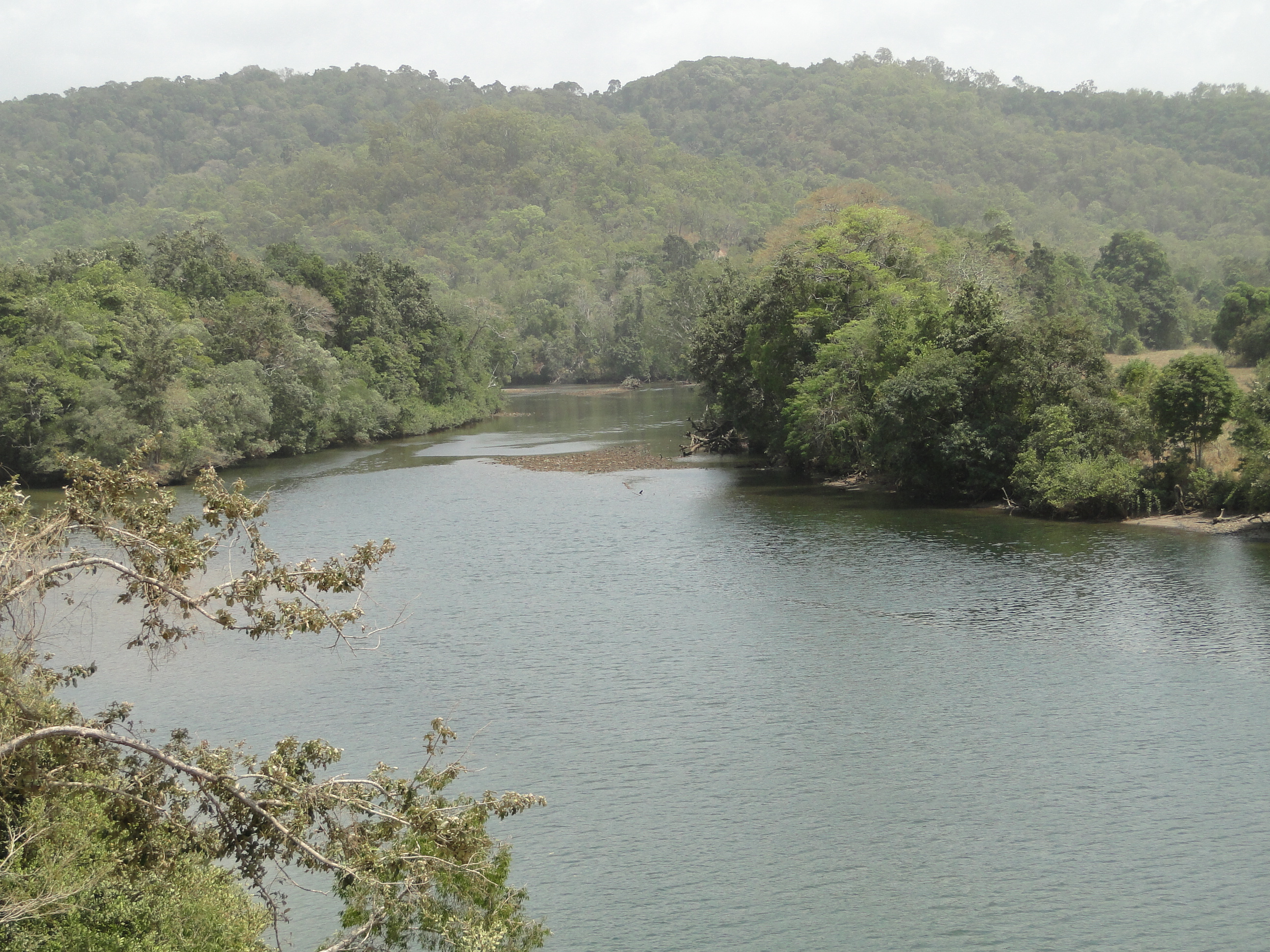 View of the Bloomfield River, Queensland, Australia, downstream of the falls